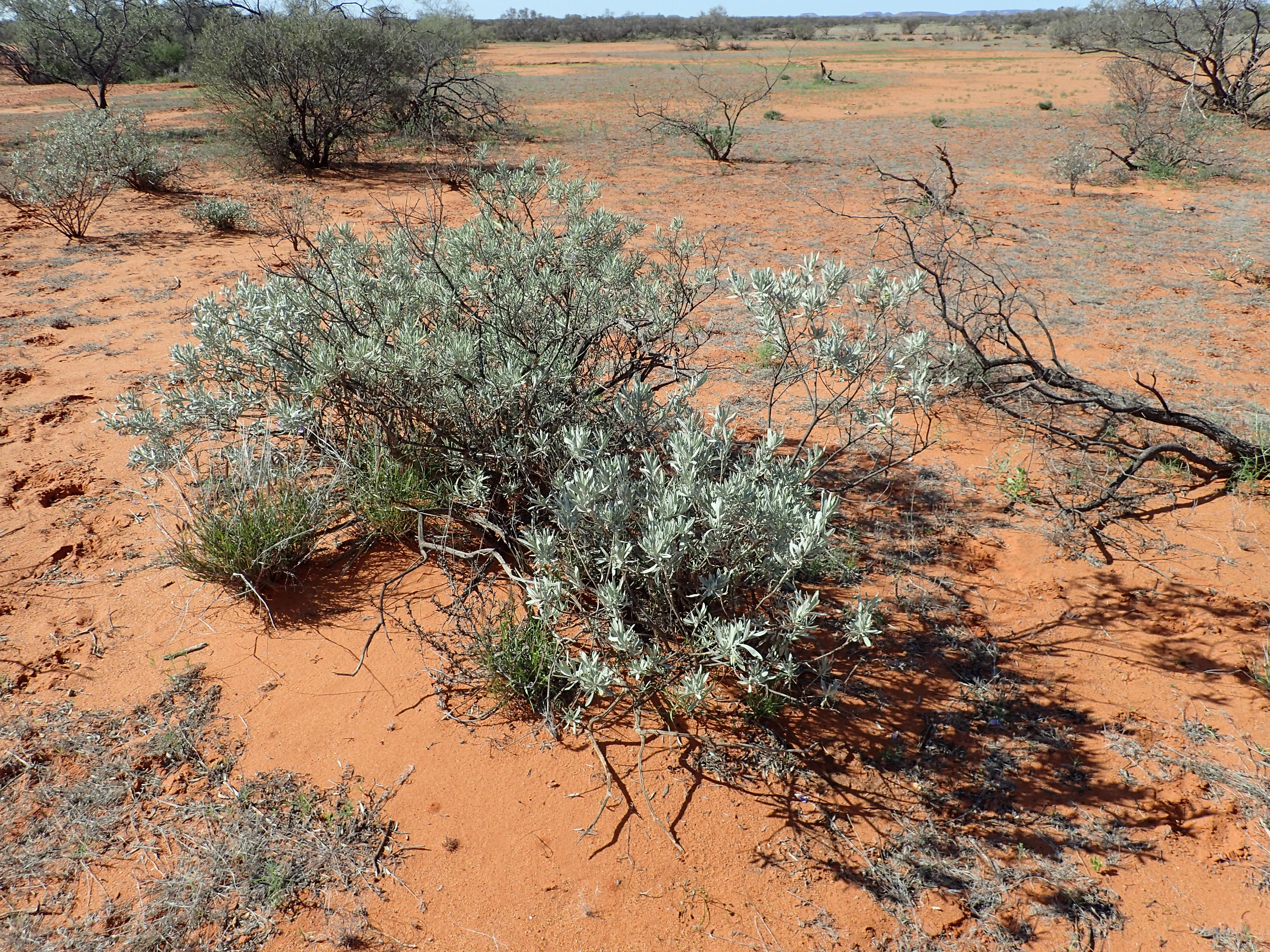 Eremophila recurva growing 10km north of Gascoyne Junction